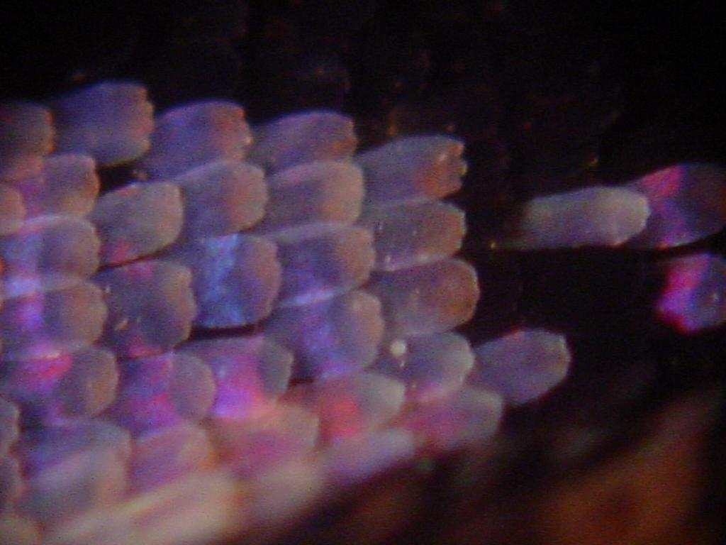 Description: Butterfly wing, blue-purple opalescent part, scales Author, date of creation: selfmade by Shaddack, 22 October 2005 Source: self-made Copyright: GFDL Comments: Microphotography from a homemade rig